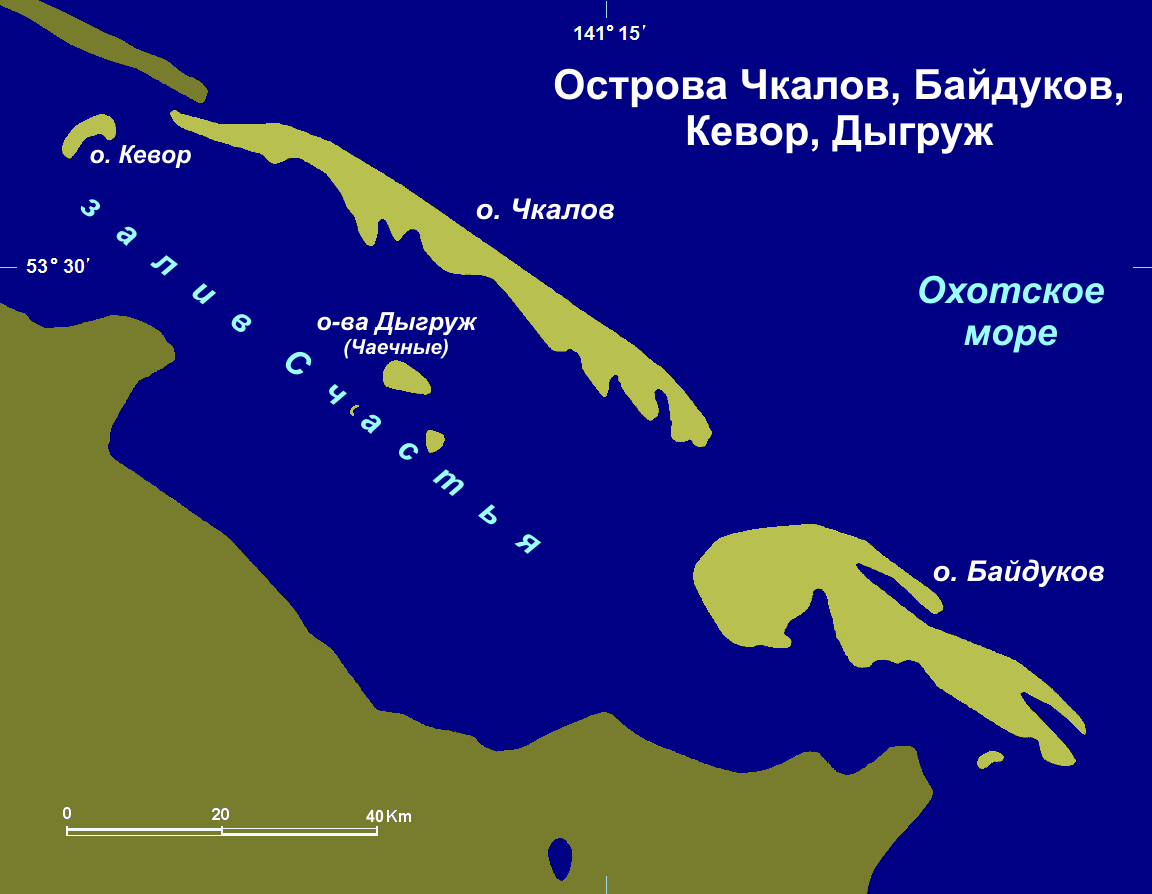 Island map